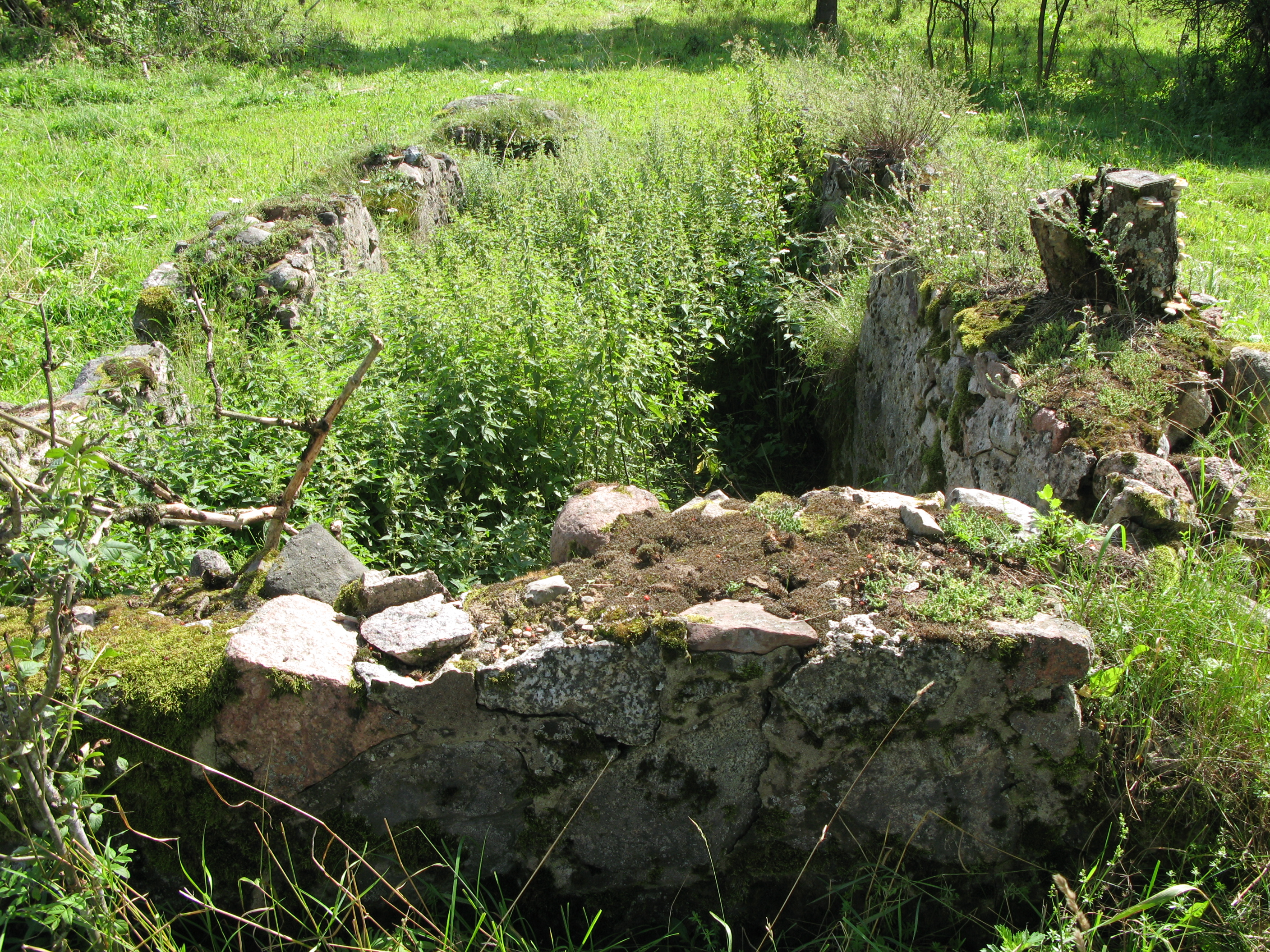 ruins of Golubie, destructed town, Poland, Suwalki region